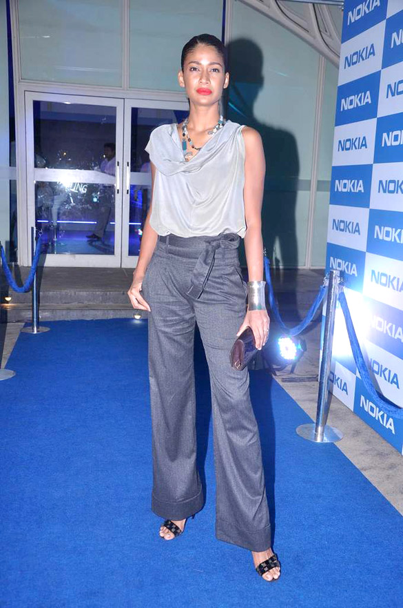 Carol Gracias at Nokia APP party